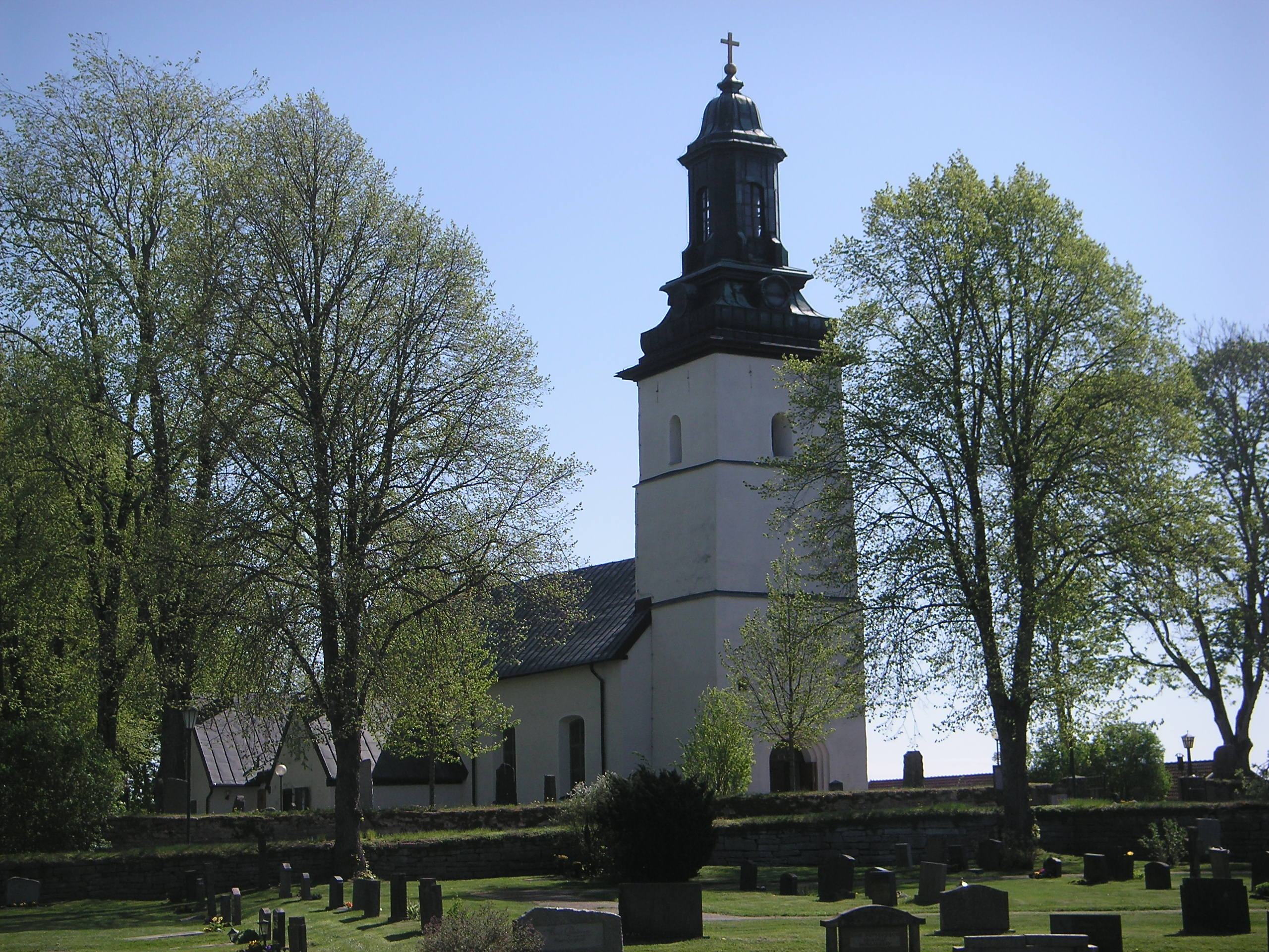 Exterior of the church in Knista (Sweden)